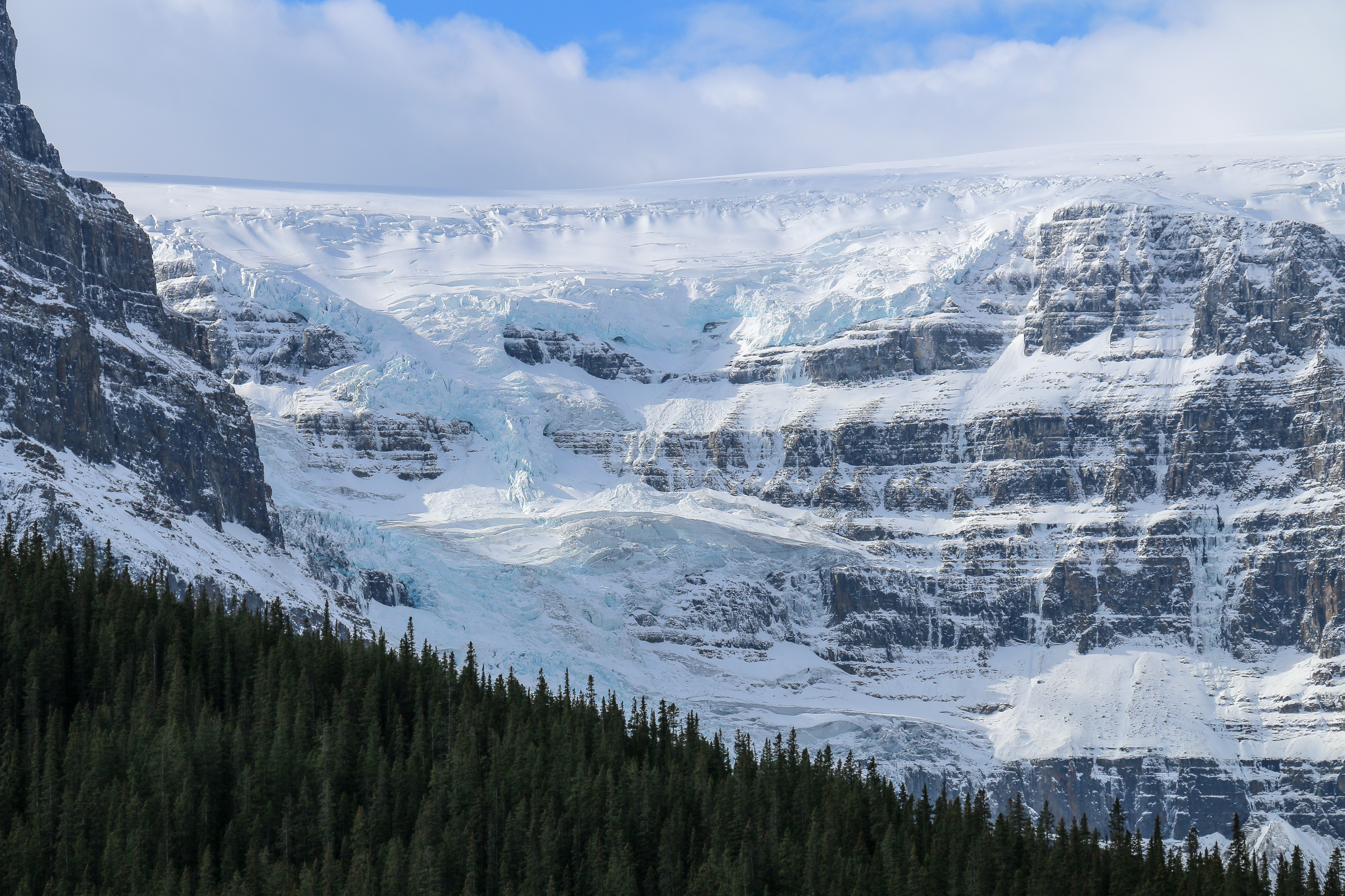 The Icefields Parkway in Jasper National Park